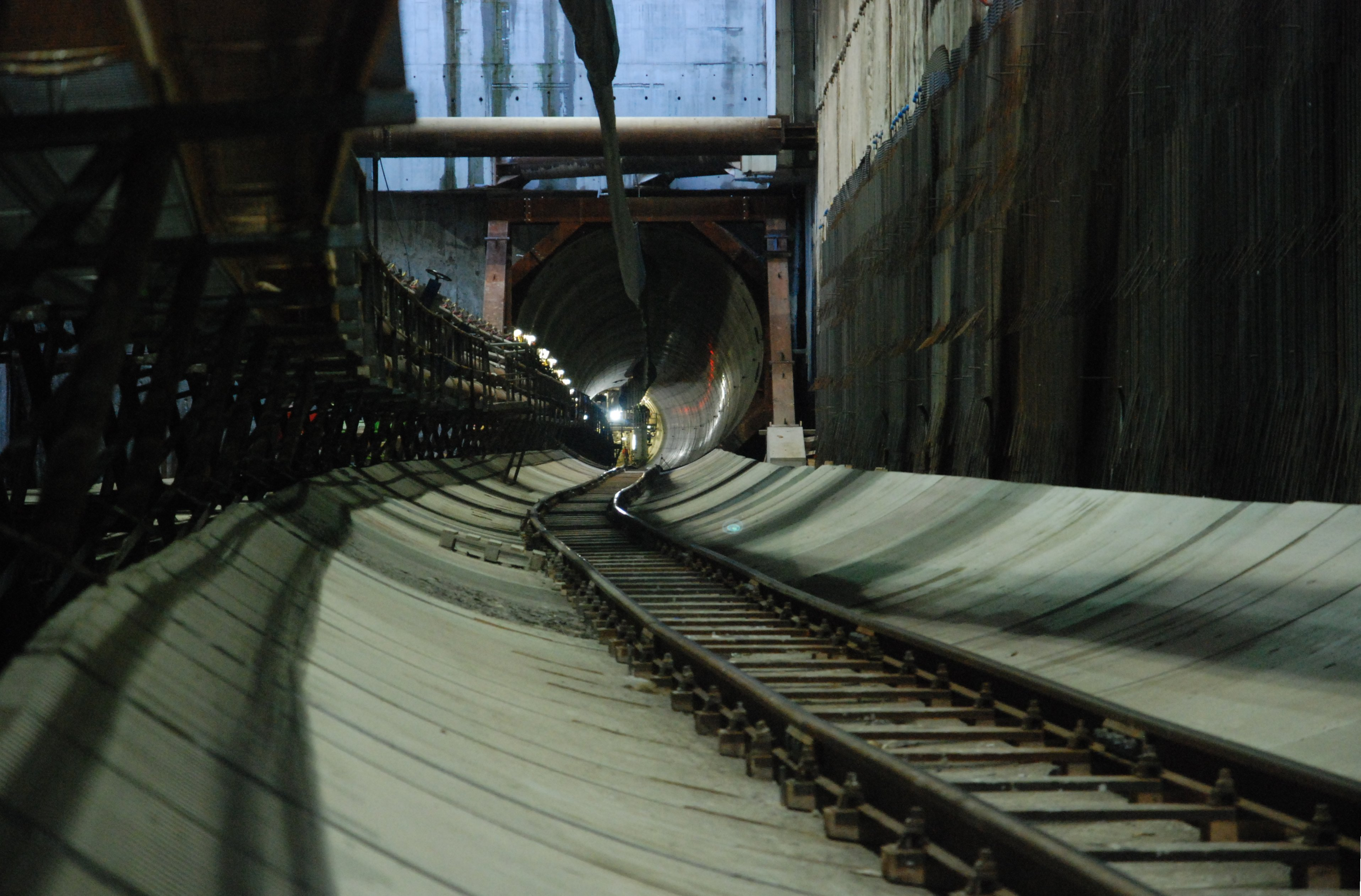 city tunnel Leipzig, station "Wilhelm-Leuschner-Platz"